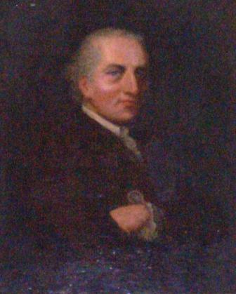 Portrait in oils of William Sandeman in private collection in Bristol, England.